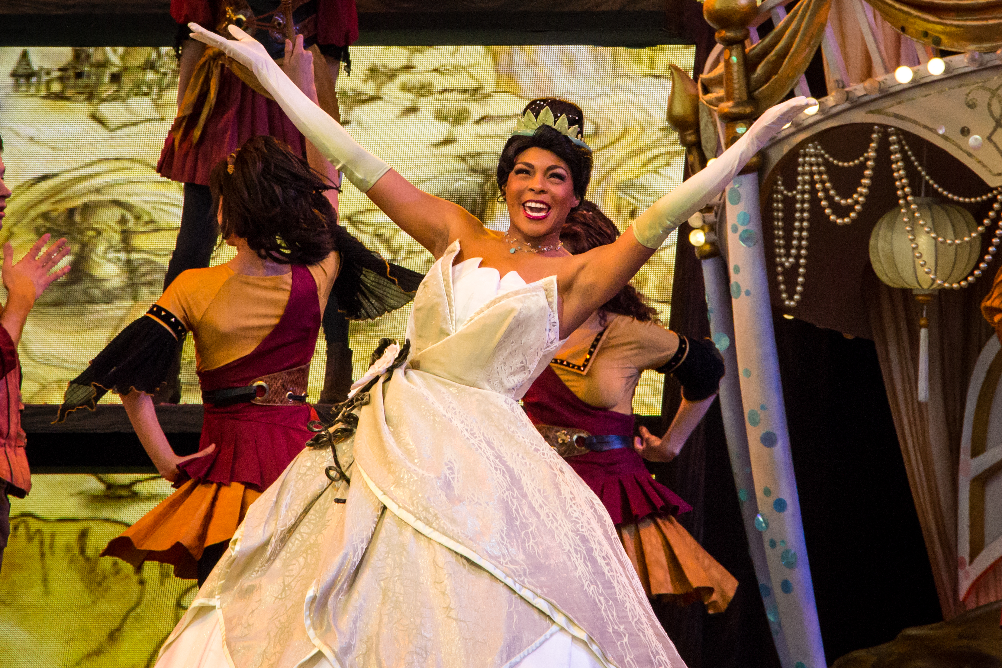 The fabulous "Mickey and the Magical Map" show at the Fantasyland Theatre in Disneyland.